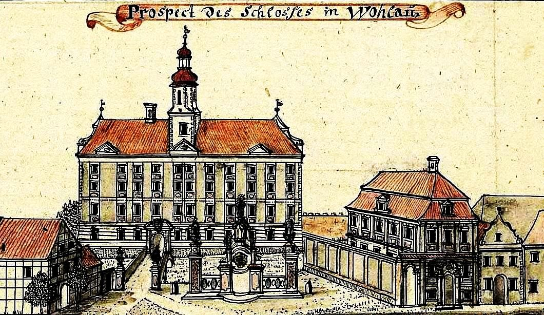 Castle in Wołów (Poland)